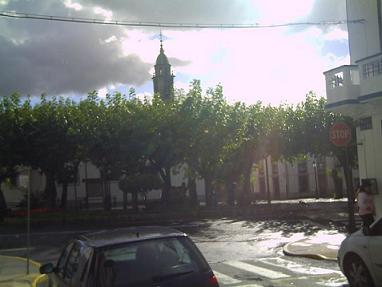 The square in front of the church in Arzúa in Galicia, Spain, along the Way of St. James.